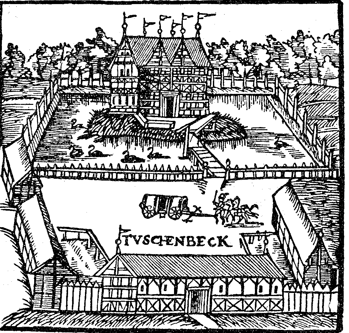 16th century woodcut showing the manor TVSCHENBECK, modern. Tüschenbek in the municipality of Groß Sarau, Lauenburg district.